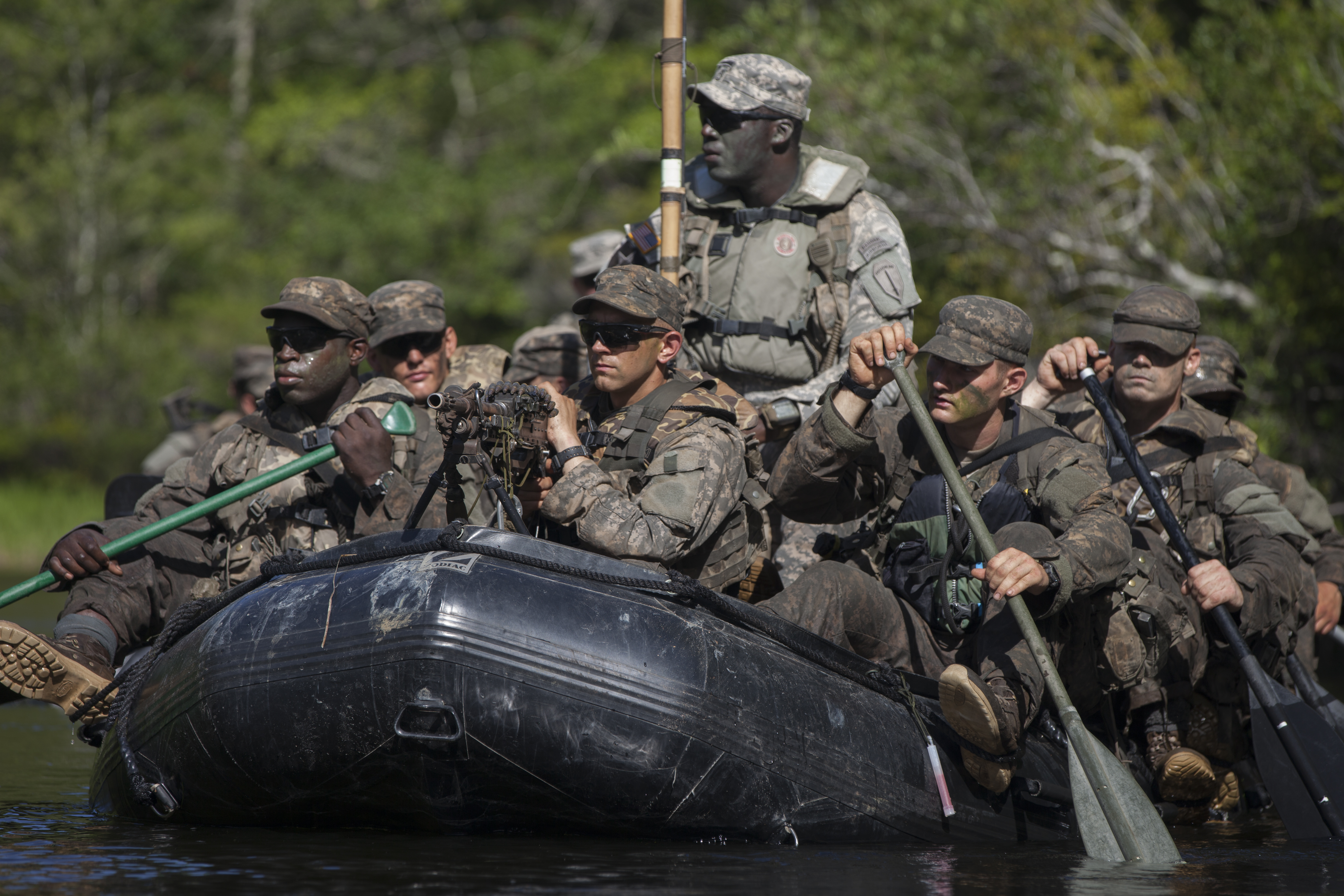 Swamp Phase of the U.S. Army's Ranger School -- river insertion via Combat Rubber Raiding Craft